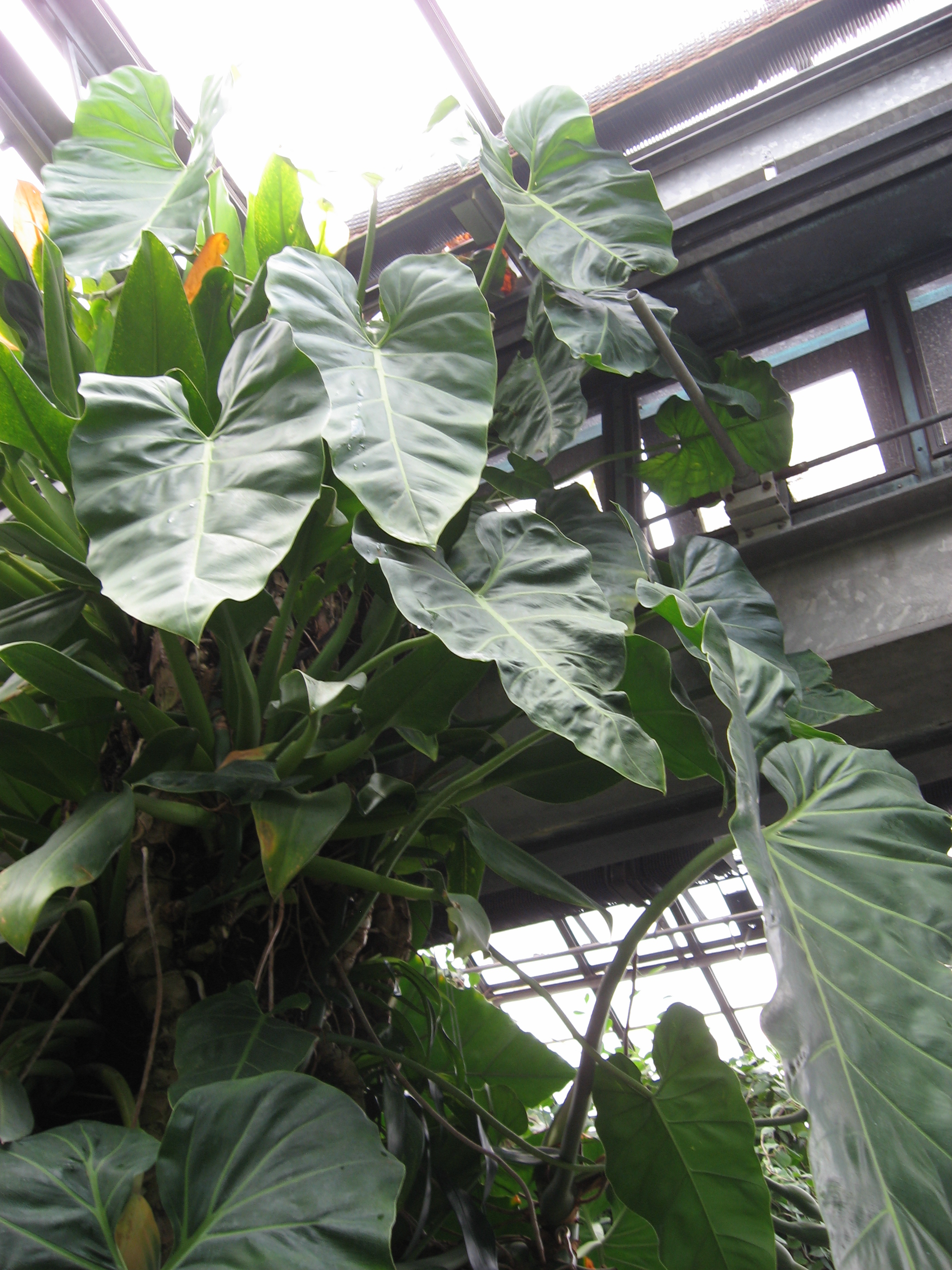 A picture of Philodendron maximum.